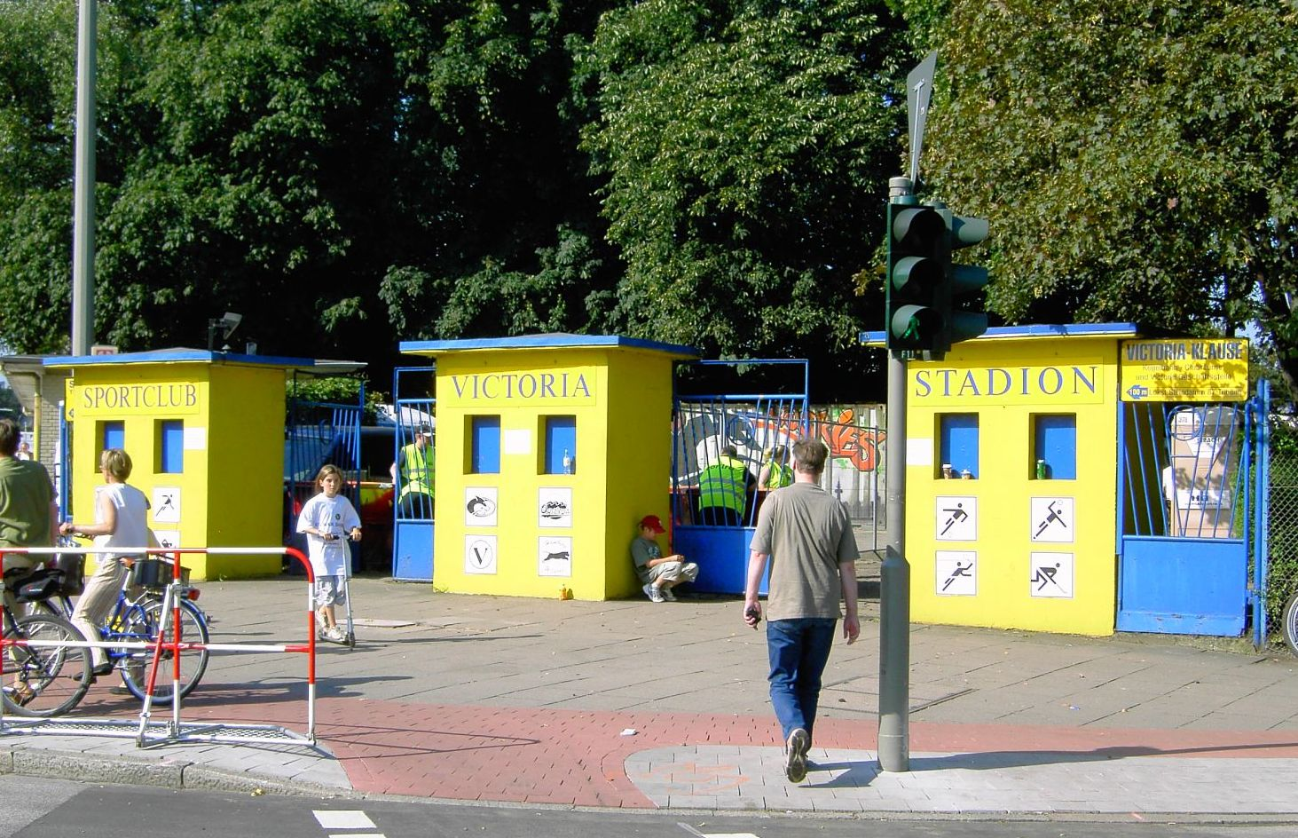 Entrance of the Stadium Hoheluft in Hamburg. Homeground of the German soccer club SC Victoria Hamburg.